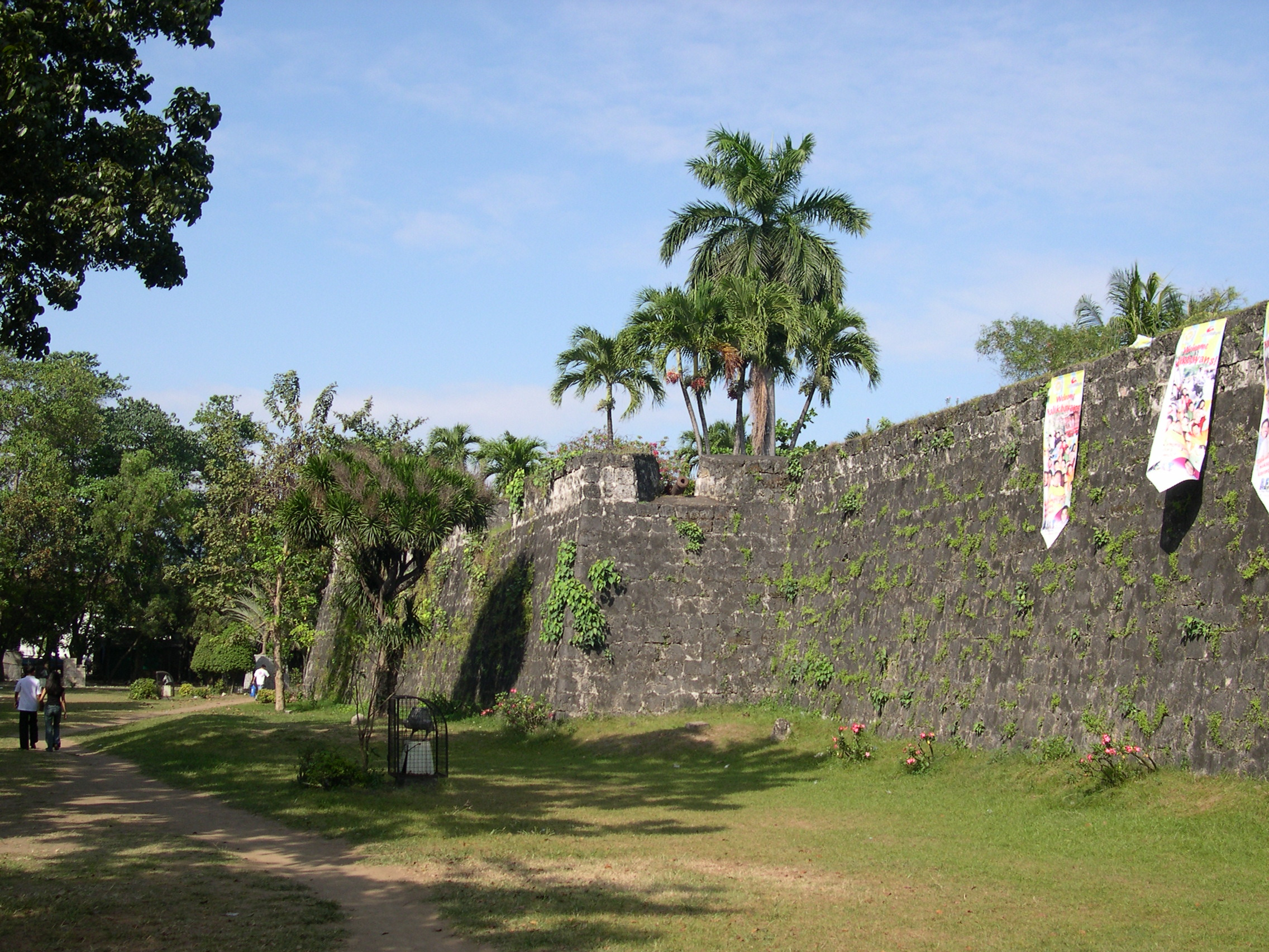 Fort San Pedro, Cebu City, Philippines. Picture taken by Magalhães on March 23 2006